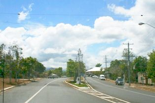 Mt Molloy, Cape York